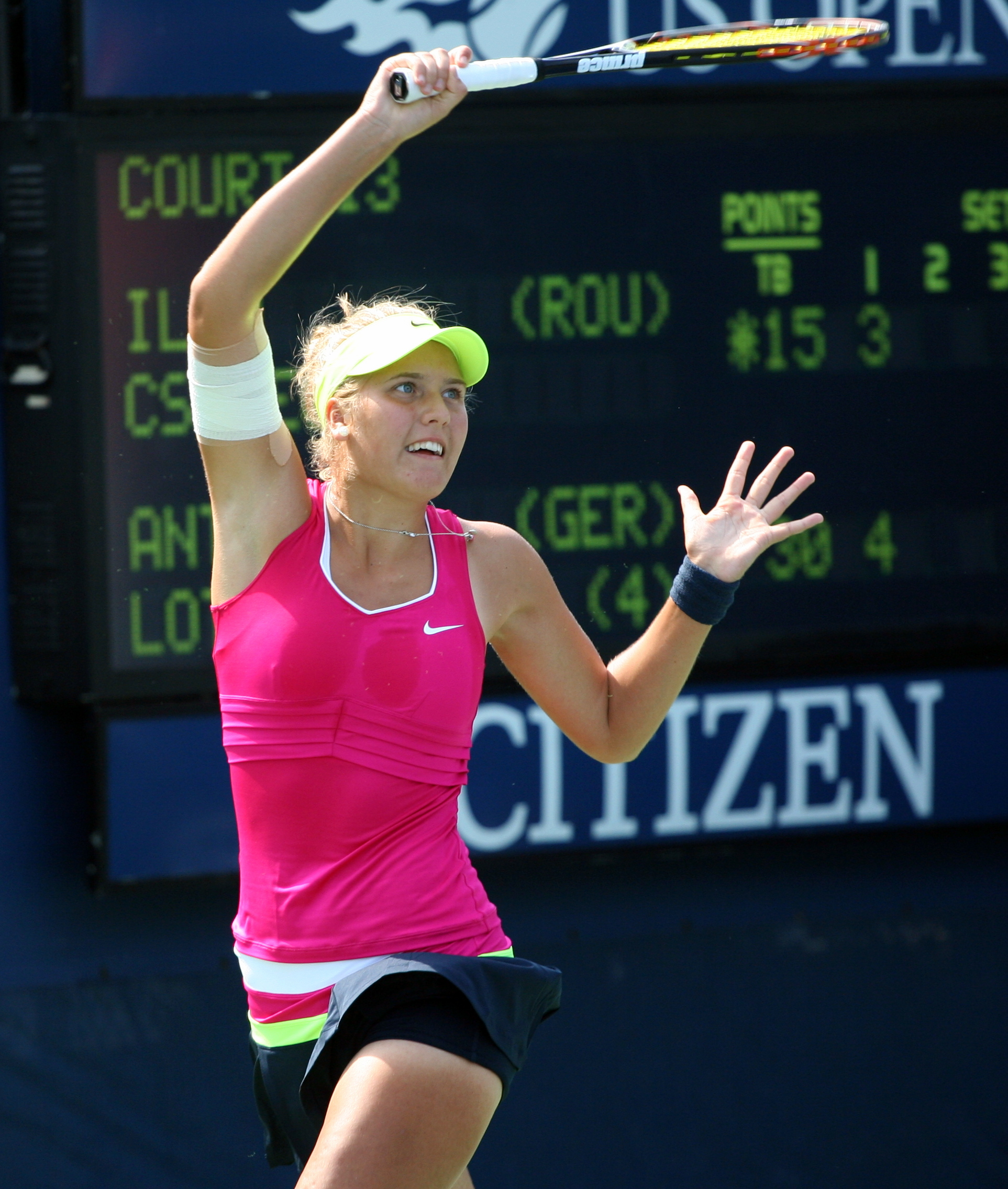 Antonia Lottner at the 2012 US Open